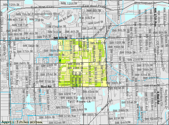 map of Westchester, Florida CDP showing boundaries